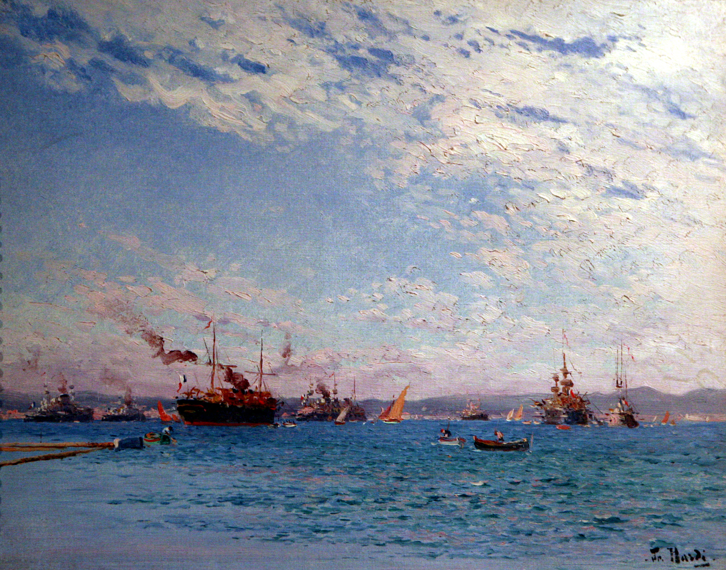 Squadron in Toulon road, morning cloudy effect, Oil on canvas, 1895 On display at Toulon naval museum. Access number 9 OA 158.